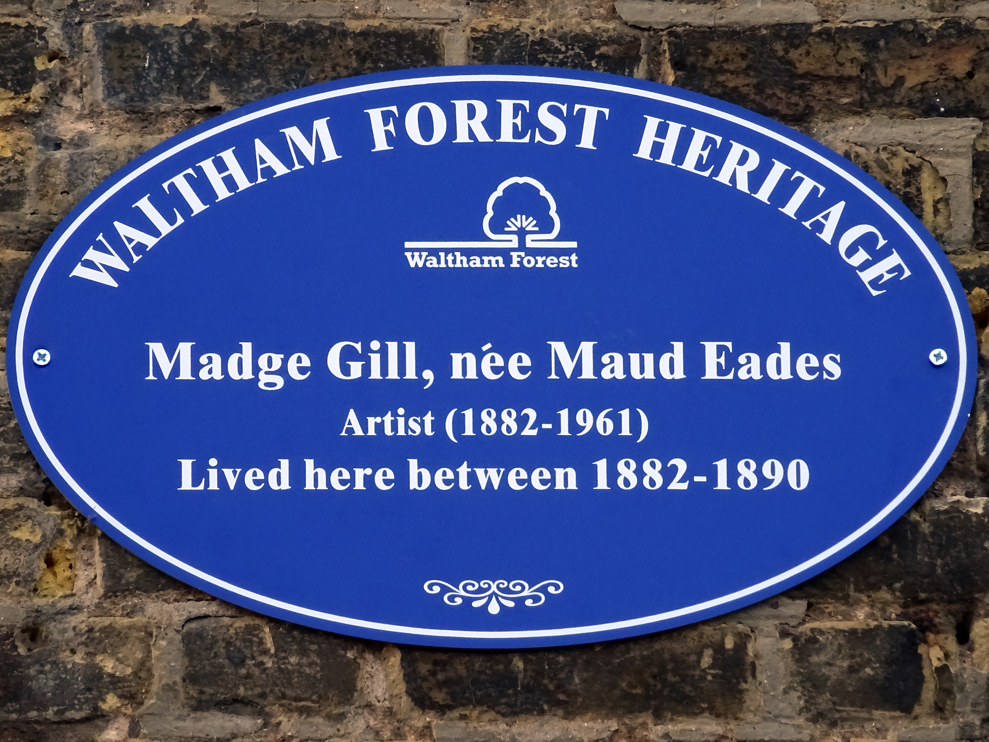 Blue plaque erected on 8th March 2018 by Waltham Forest Council as part of the Waltham Forest Heritage scheme at 71 High Street, Walthamstow, London E17 7DB